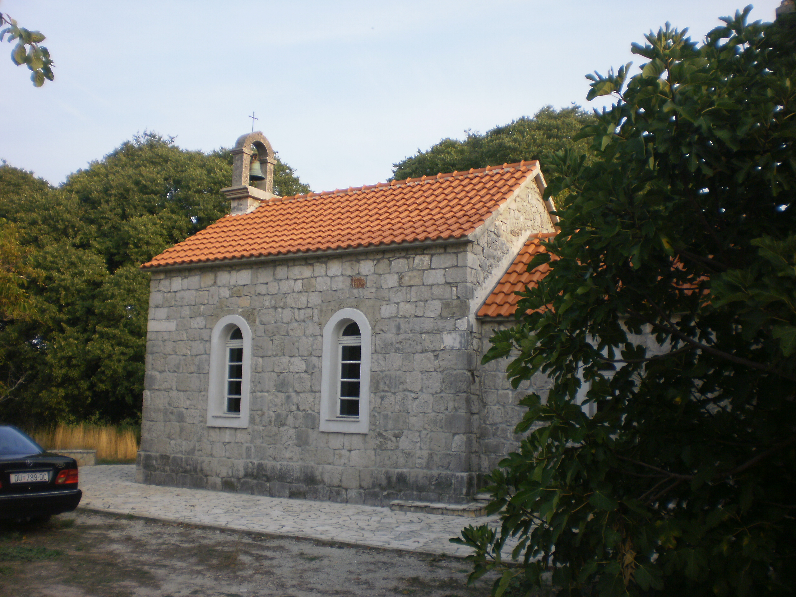 St. Mary Magdalene church in Županje Selo OLYMPUS DIGITAL CAMERA